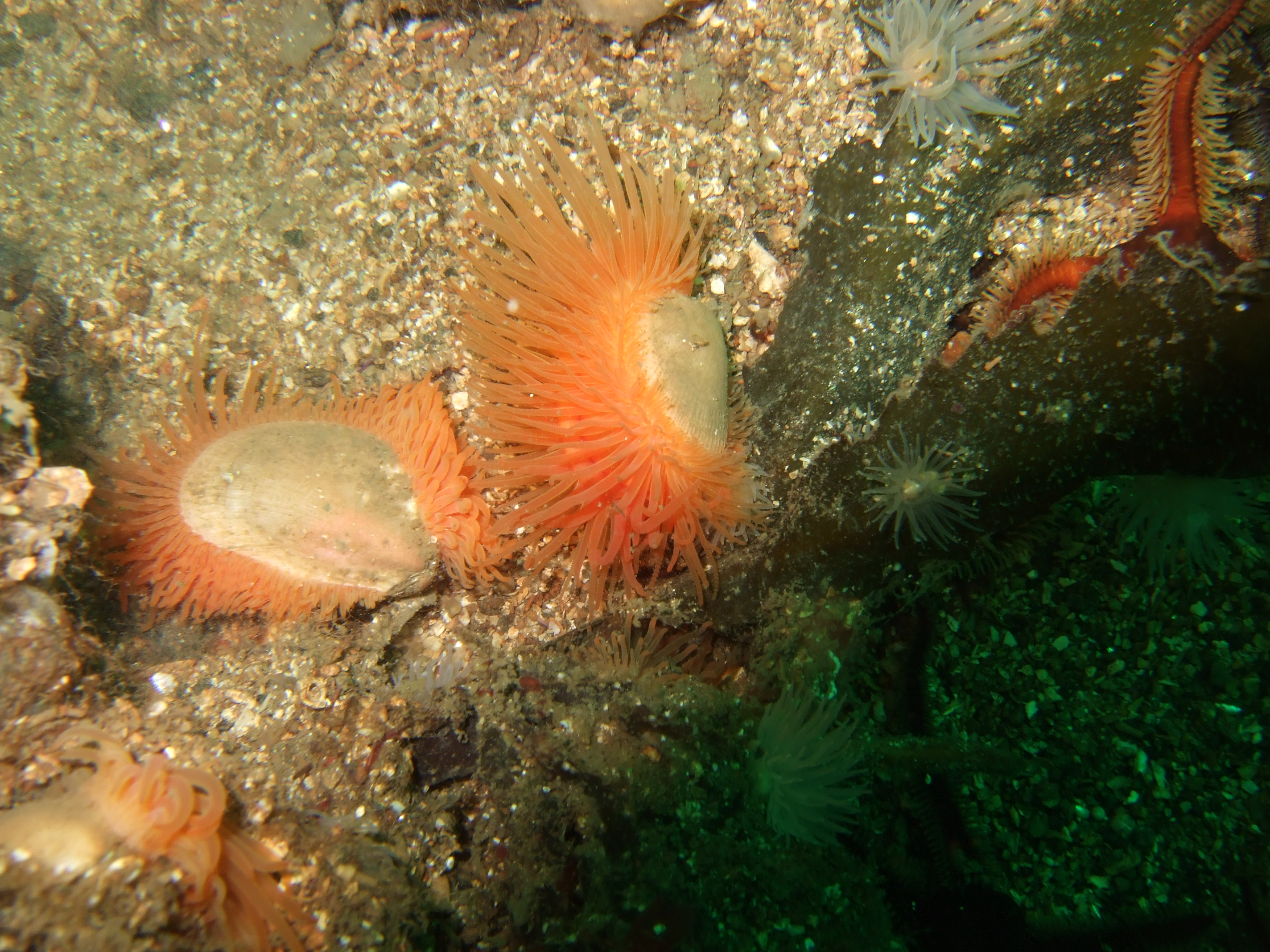 Flame Shell (Limaria hians) in Loch Carron